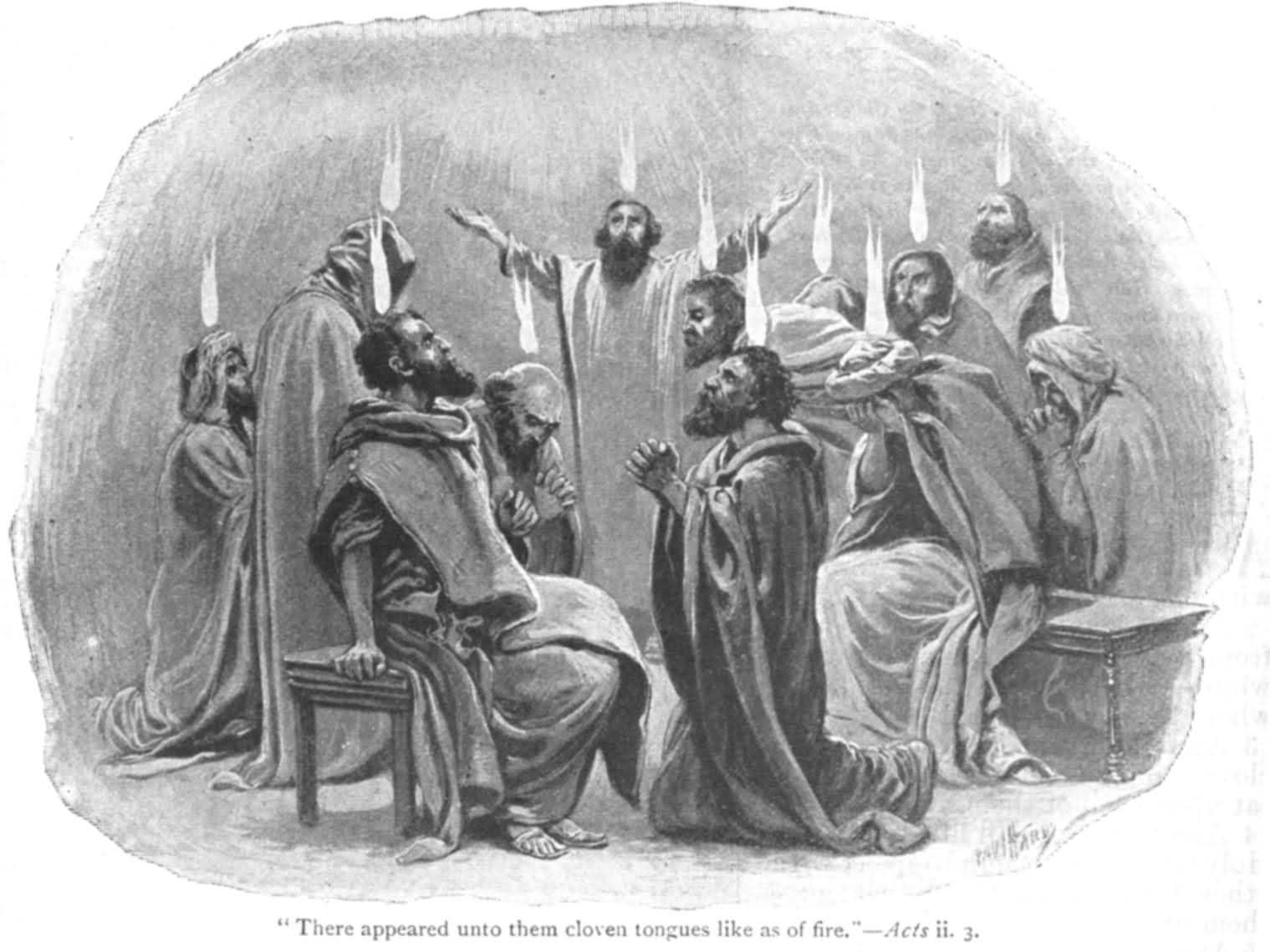 Apostles receive the gift of tongues (Acts 2)